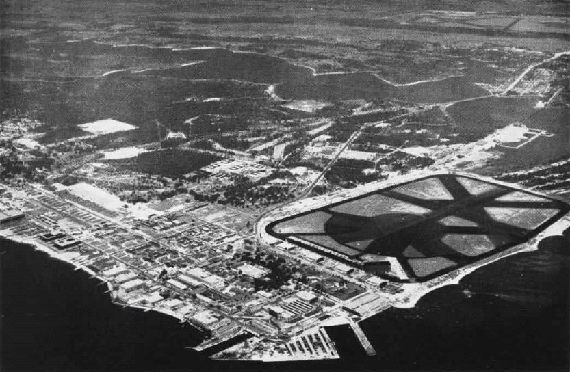 The Naval Air Station Pensacola, Florida, USA, about 1947. The airfield was known as "Chevalier Field".